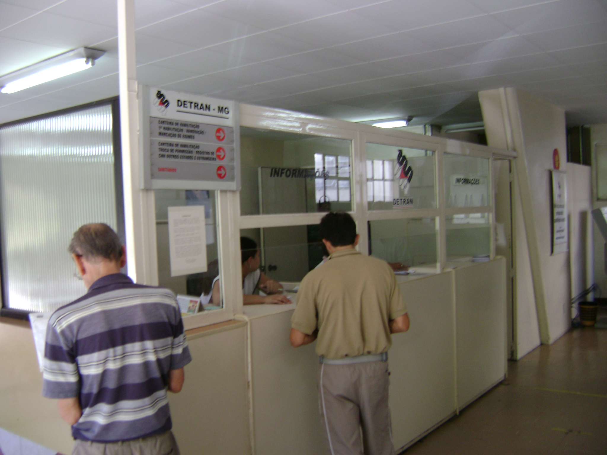 Guichê do Detran da Avenida João Pinheiro, Belo Horizonte